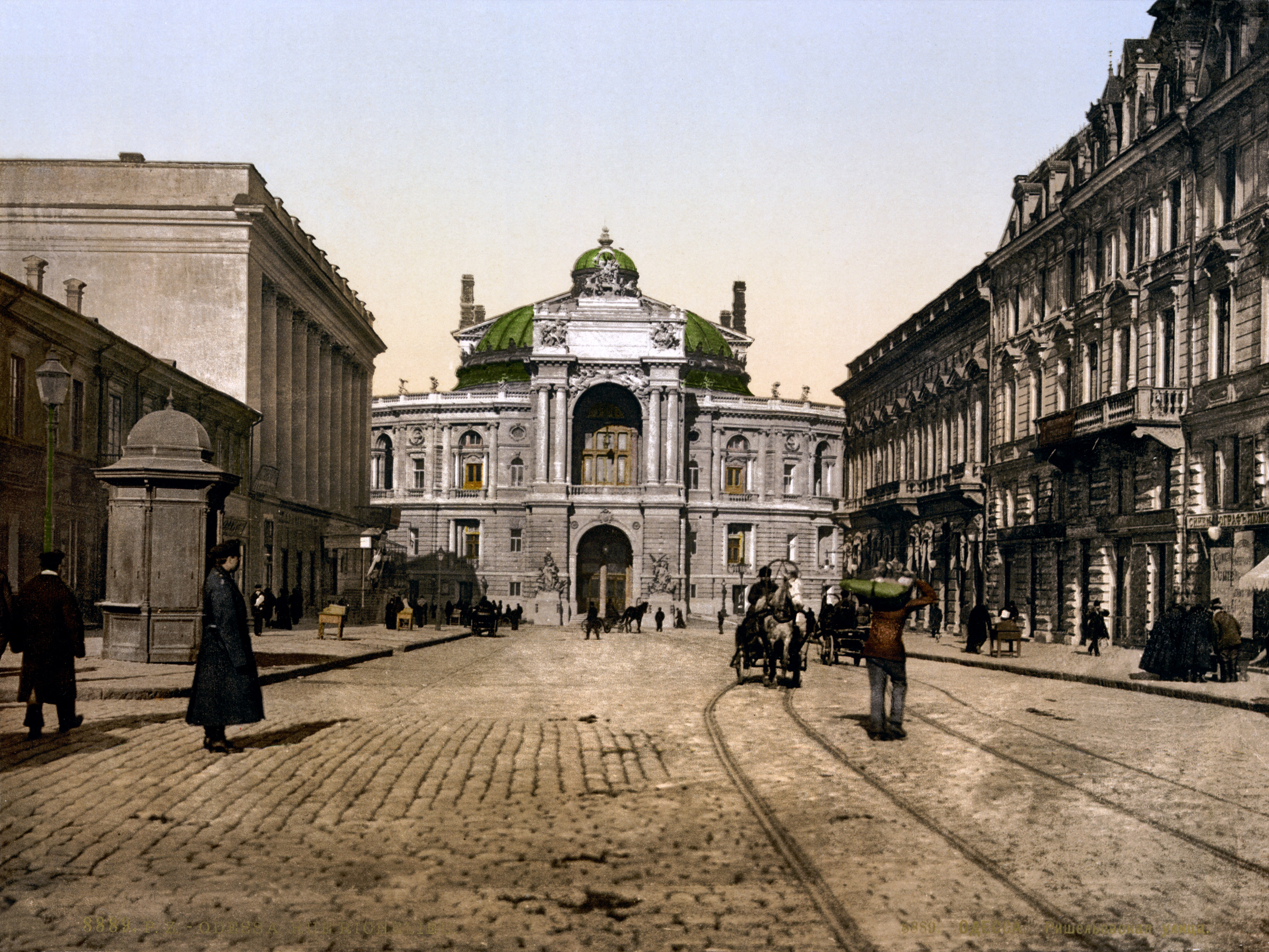 From the Detroit Publishing Co. Collection at the U.S. Library of Congress. More postcards of the Russian Empire | More photochrom postcards [PD] This picture is in the public domain.